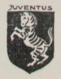 Zebra rampante, Italy's Foot-Ball Club Juventus iconography by Carlo Bergoglio (Carlin) inside in an Old French Shield.